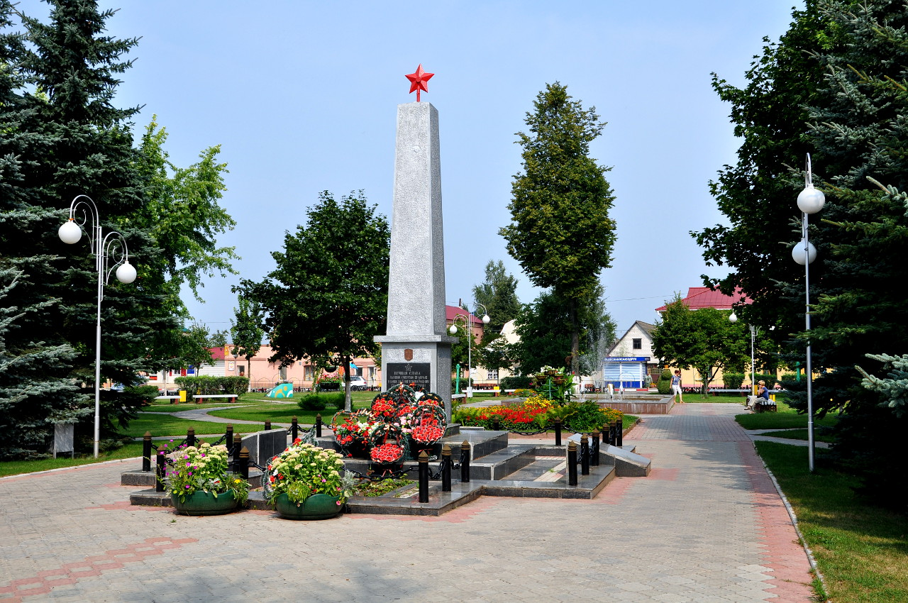 Беларуская (тарашкевіца): Брацкая магіла. г. Паставы This is a photo of Belarusian heritage monument. Reference number: 213Д000576 ( WLM)